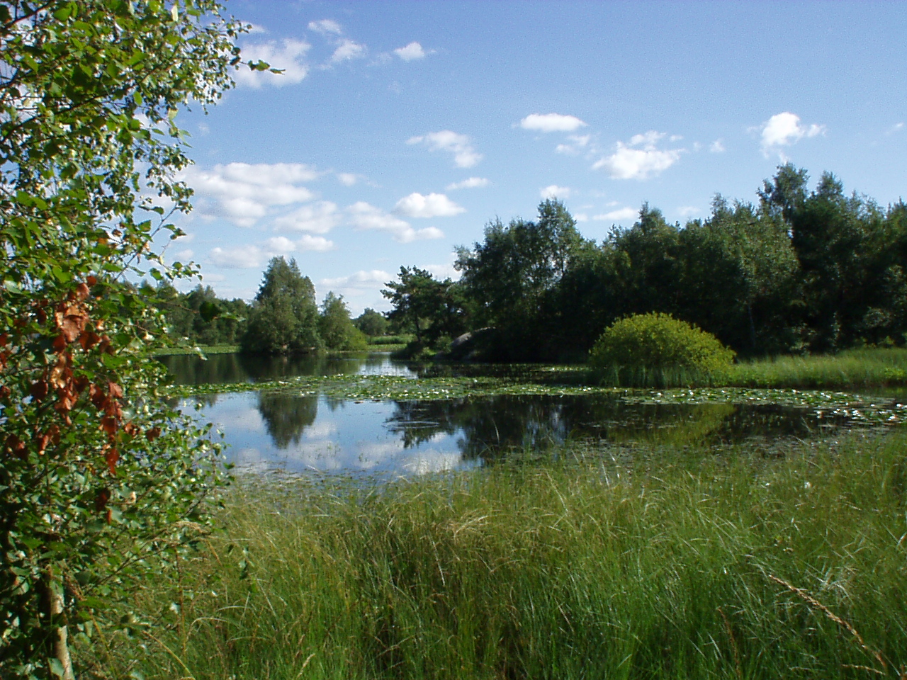 Photo of Svarte mosse.